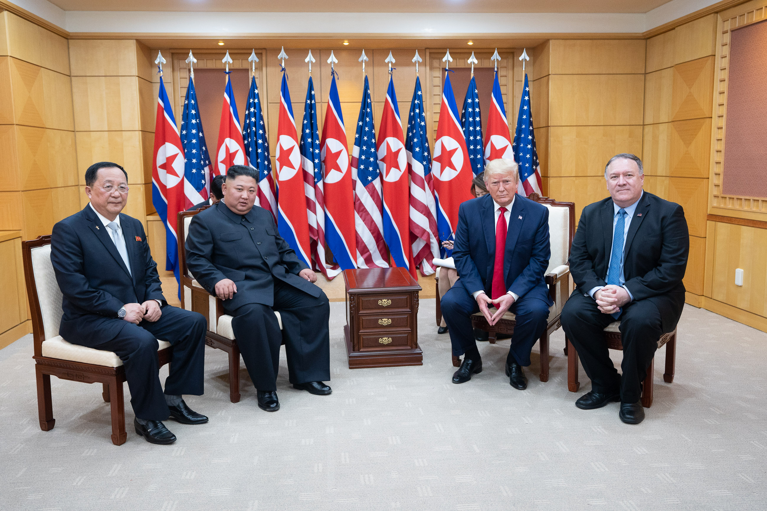 President Donald J. Trump and Chairman of the Workers’ Party of Korea Kim Jong Un speak to reporters Sunday, June 30, 2019, as the two leaders meet in Freedom House at the Korean Demilitarized Zone. (Official White House Photo by Shealah Craighead)